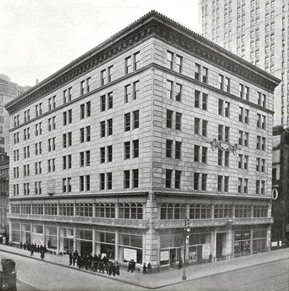 Astor House Building, Broadway and Vesey Street, New York, 1916 Image Title: Astor House Building, Broadway and Vesey Street, New York. Depicted Date: 1916 Specific Material Type: Prints Item Physical Description: 1 photographic print : b&w ; 27 x 20 cm. (10 1/4 x 8 in.) Notes: Printed on border: "Built by Marc Eidlitz & Sons ; painting and decorating - Charles Grimmer & Son ; Fox "Muralite" usedd to paint ceiling." Written on border: "Jan. 1916." Includes additional text on verso. Source: Mid-Manhattan Picture Collection / New York City -- office buildings Source Description: 2 folders (70 pictures) Location: Mid-Manhattan Library / Picture Collection Catalog Call Number: PC NEW YC-Off Digital ID: 806084 Record ID: 693916 Digital Item Published: 10-27-2005; updated 3-25-2011